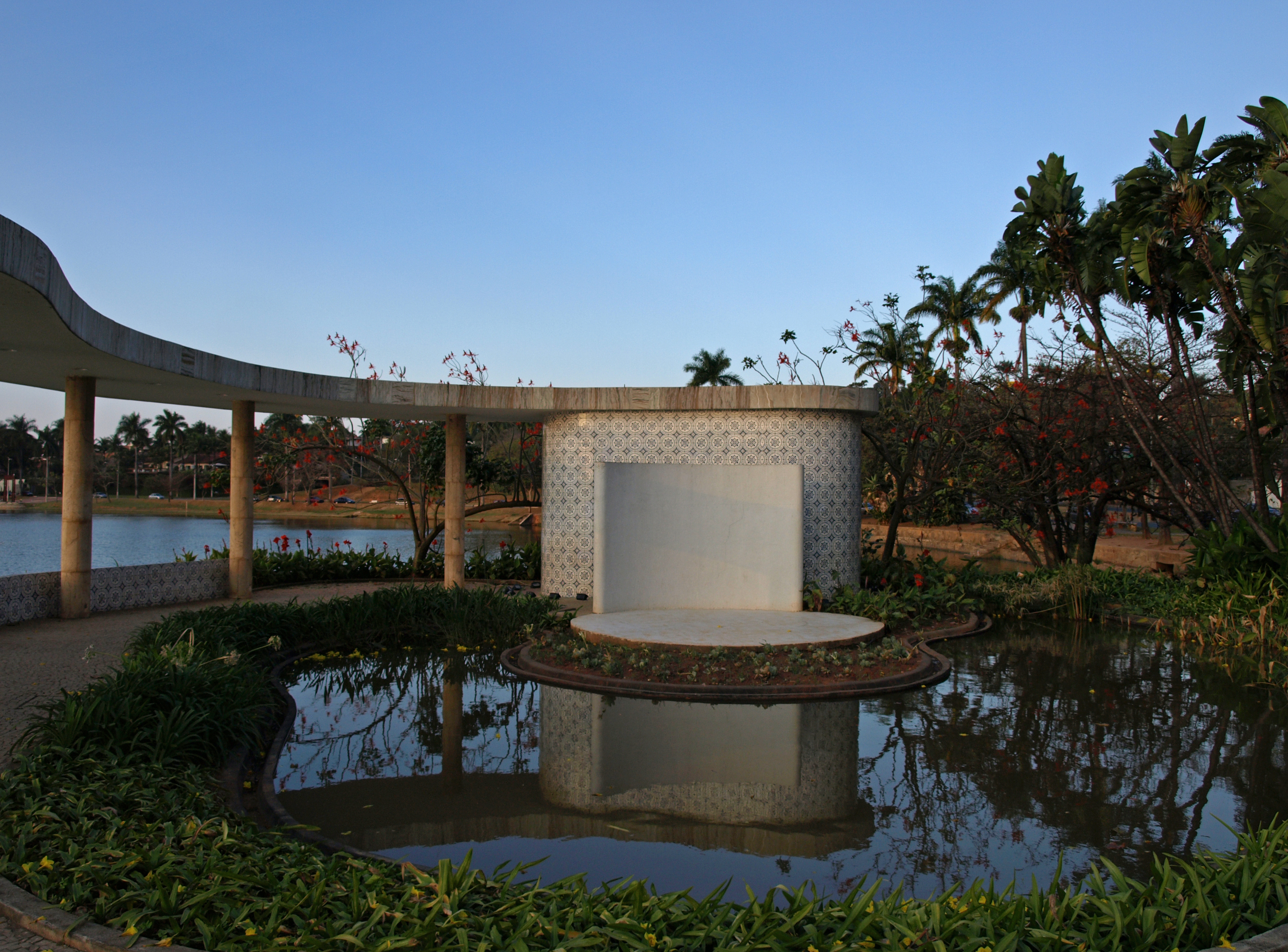 Casa do Baile, Pampulha, Belo Horizonte, Brazil